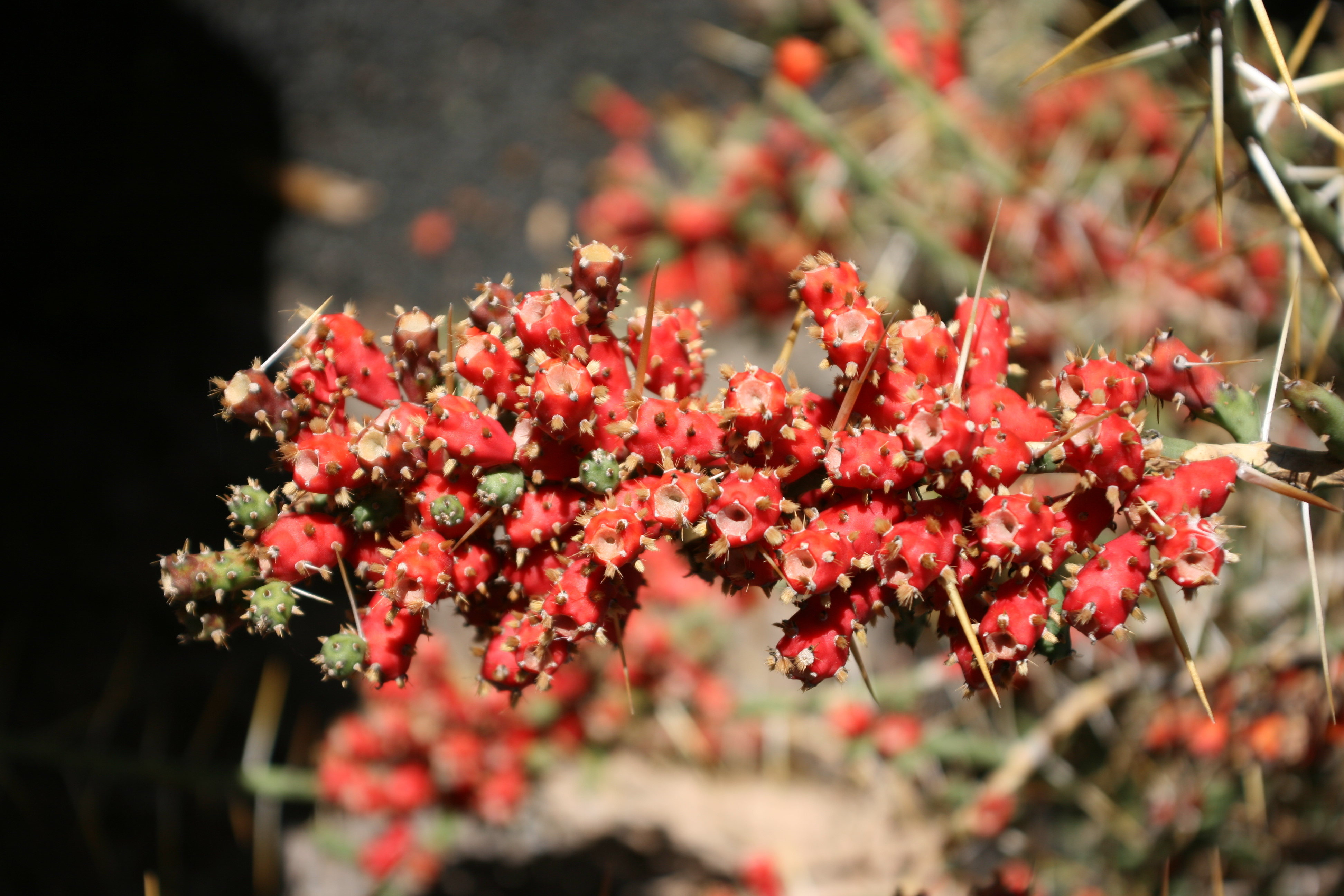 Cylindropuntia leptocaulis grown in the Botanical Garden “Jardin de Cactus” in Guatiza, Teguise, Lanzarote, Canary Islands